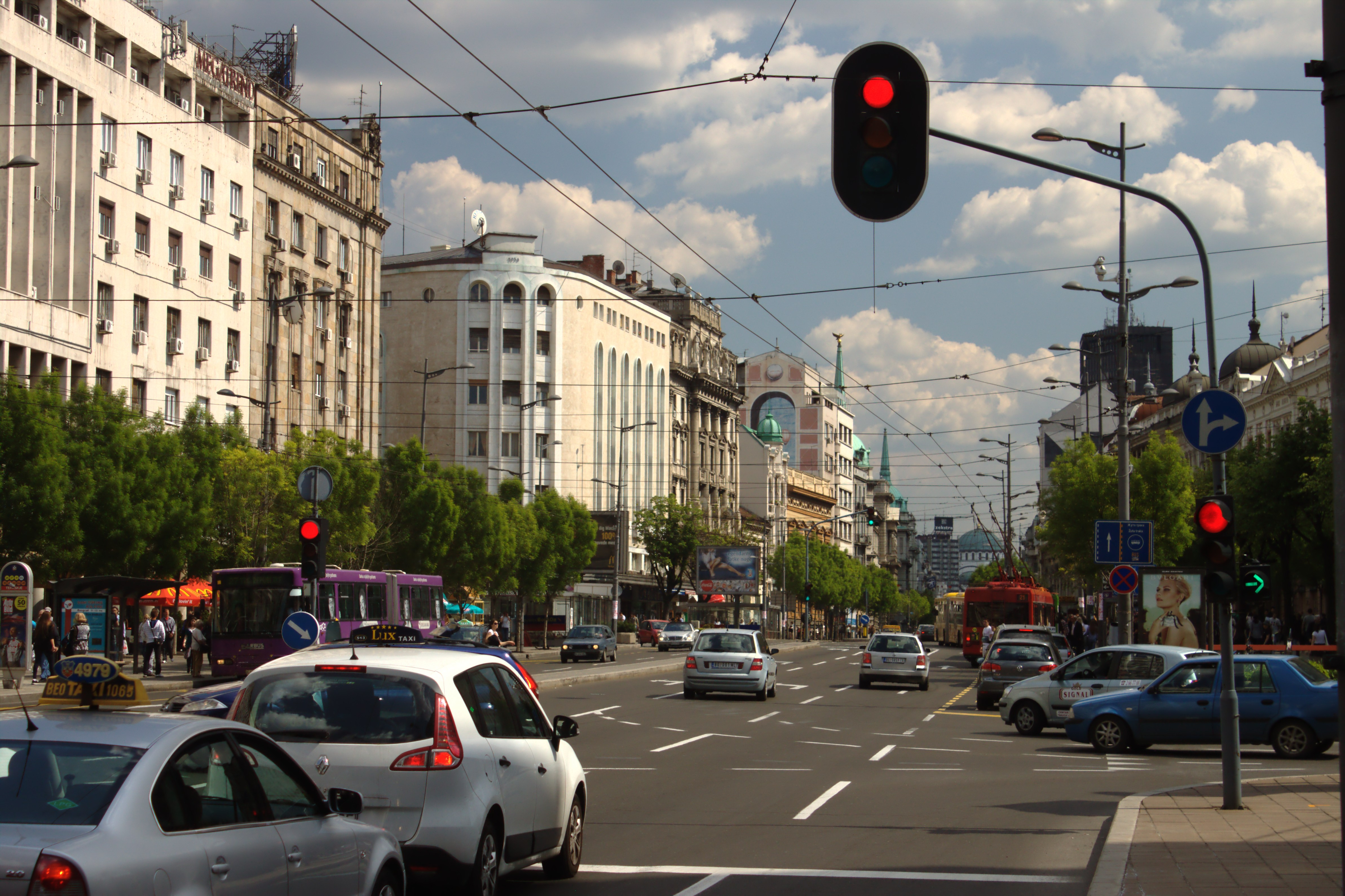 Terazije during a thursday afternoon, Belgrade, Serbia